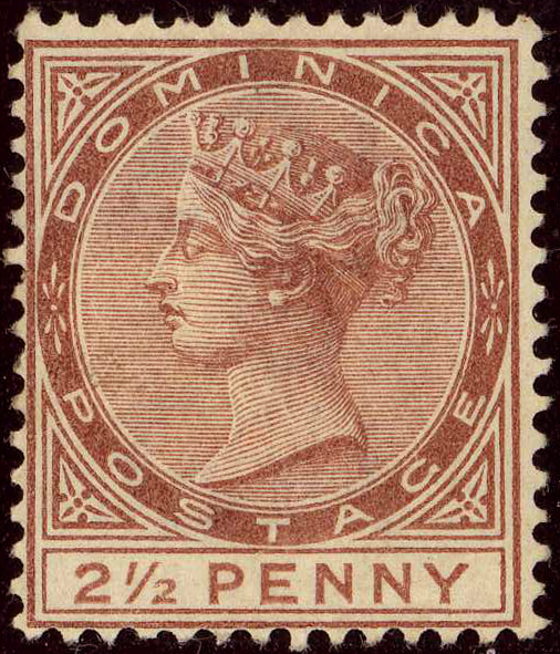 2half red-brown Dominica 1884 issue (crown CA), unused.